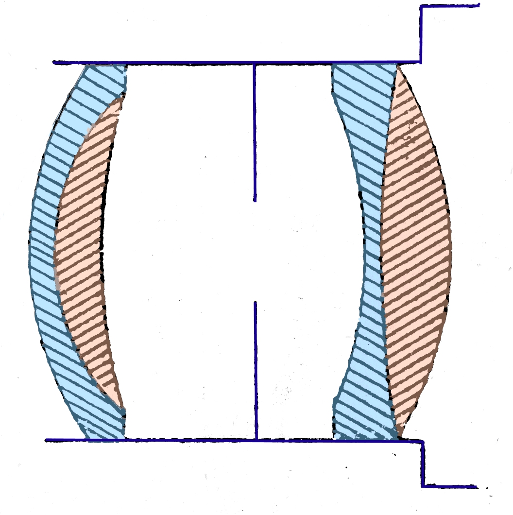 A portrait lens design by Petval of Austria in 1841, one of the earliest 2 element lens design for photography